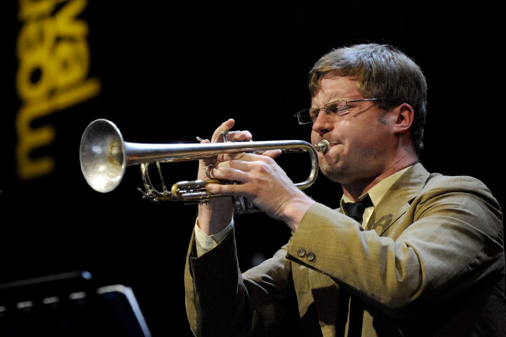 Peter Evans, moers festival 2009